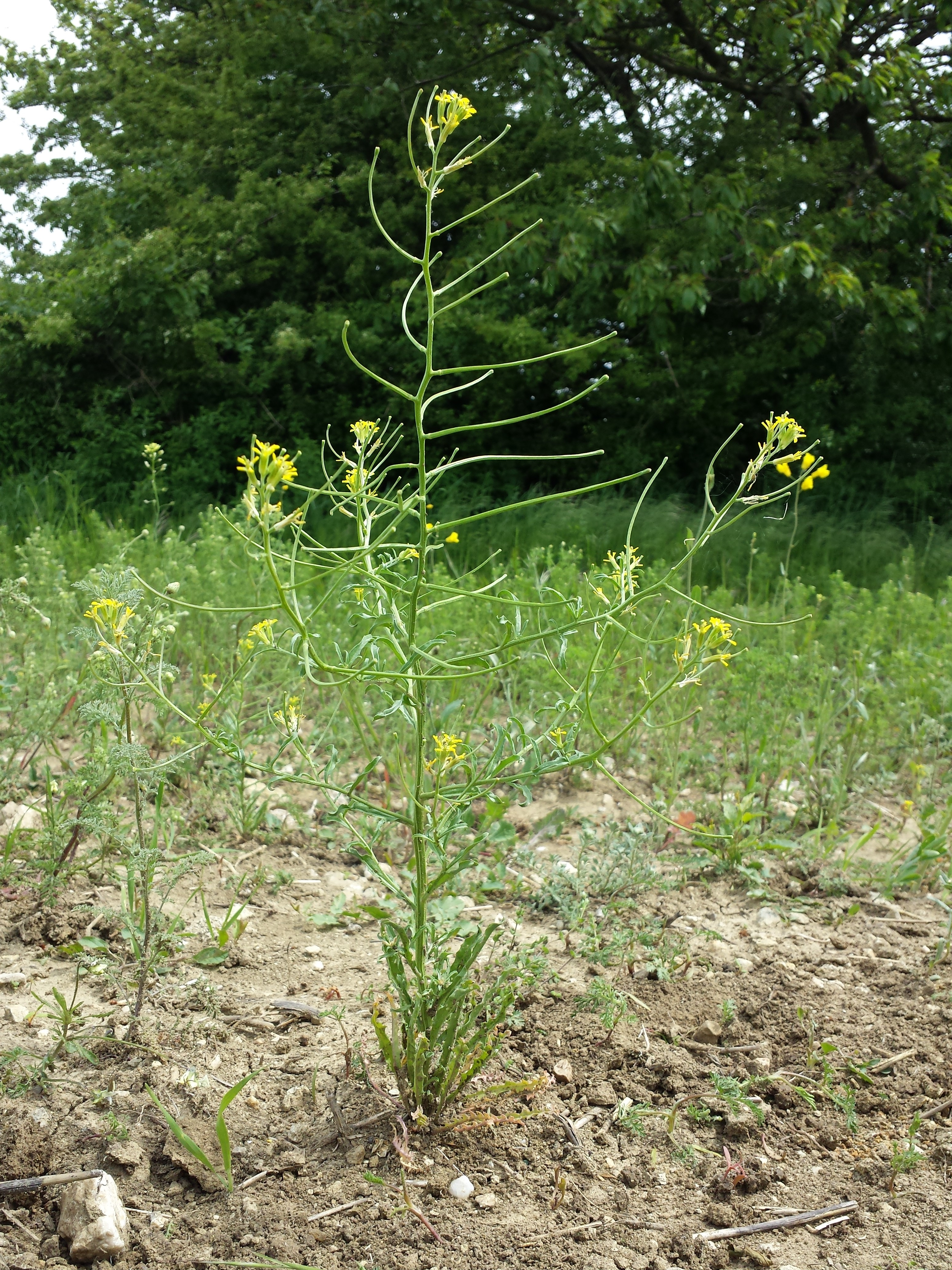 Habitus Taxonym: Erysimum repandum ss Fischer et al. EfÖLS 2008 ISBN 978-3-85474-187-9 Location: Schulberg, Leiser Berge, district Korneuburg, Lower Austria - ca. 427 m a.s.l. Habitat: field